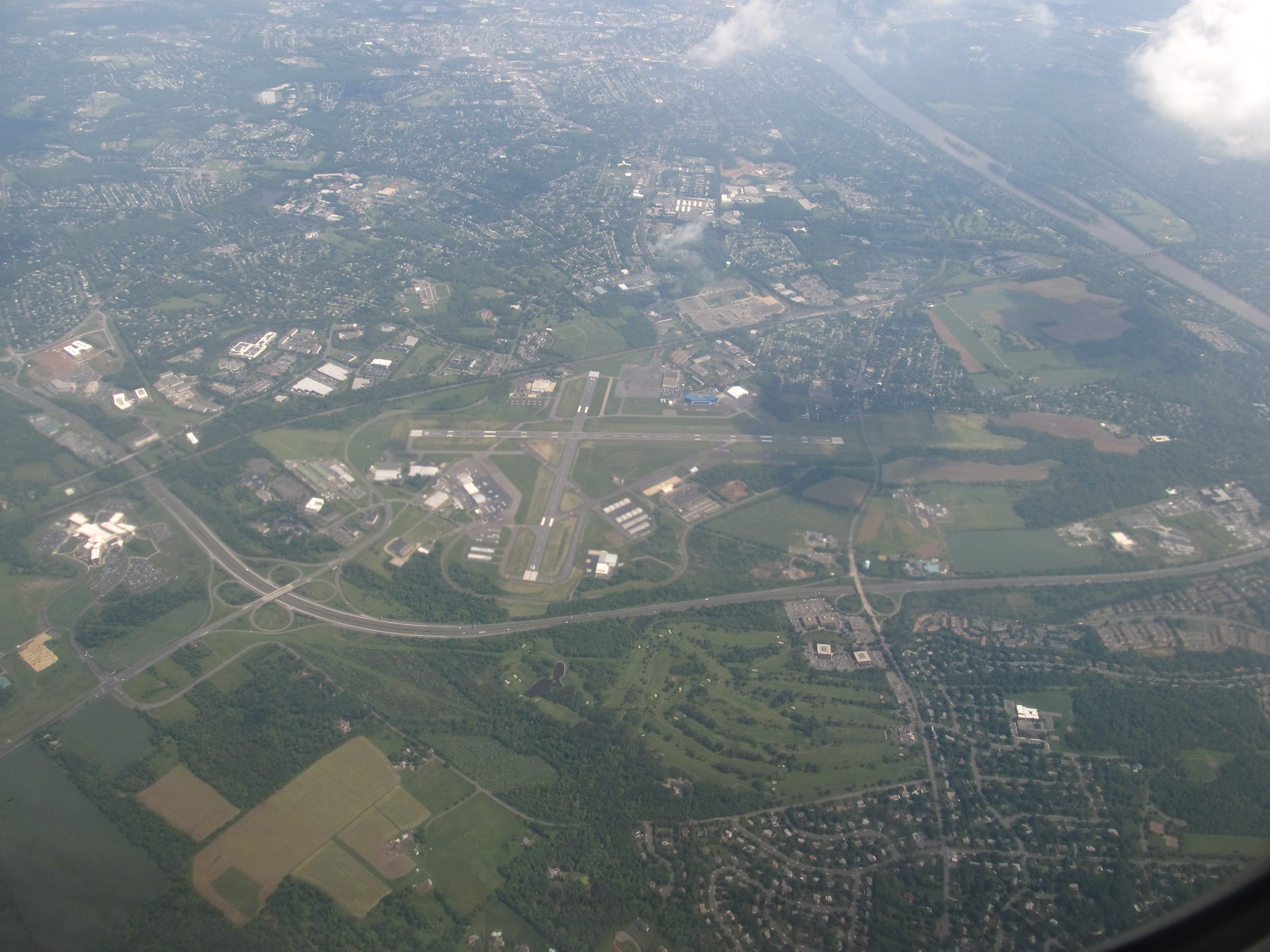 Aerial view of Ewing, New Jersey, looking southeast. Trenton-Mercer Airport, Interstate 295 and the Delaware River are prominent in the image. The city of Trenton is visible near the top of the image, in the distance.